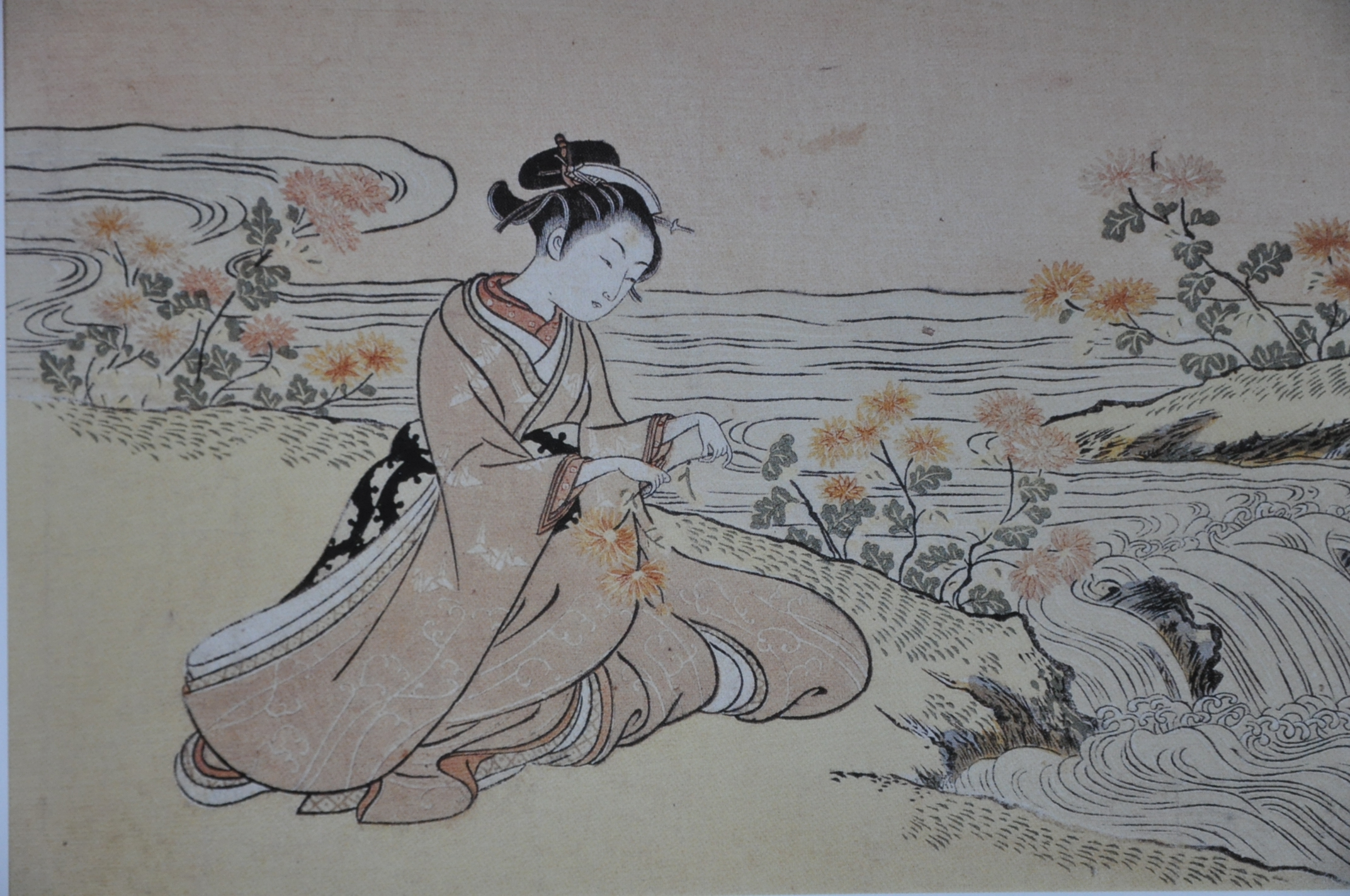 Suzuki Harunobu : egoyomi, chûban size, unsigned (1765-1767).